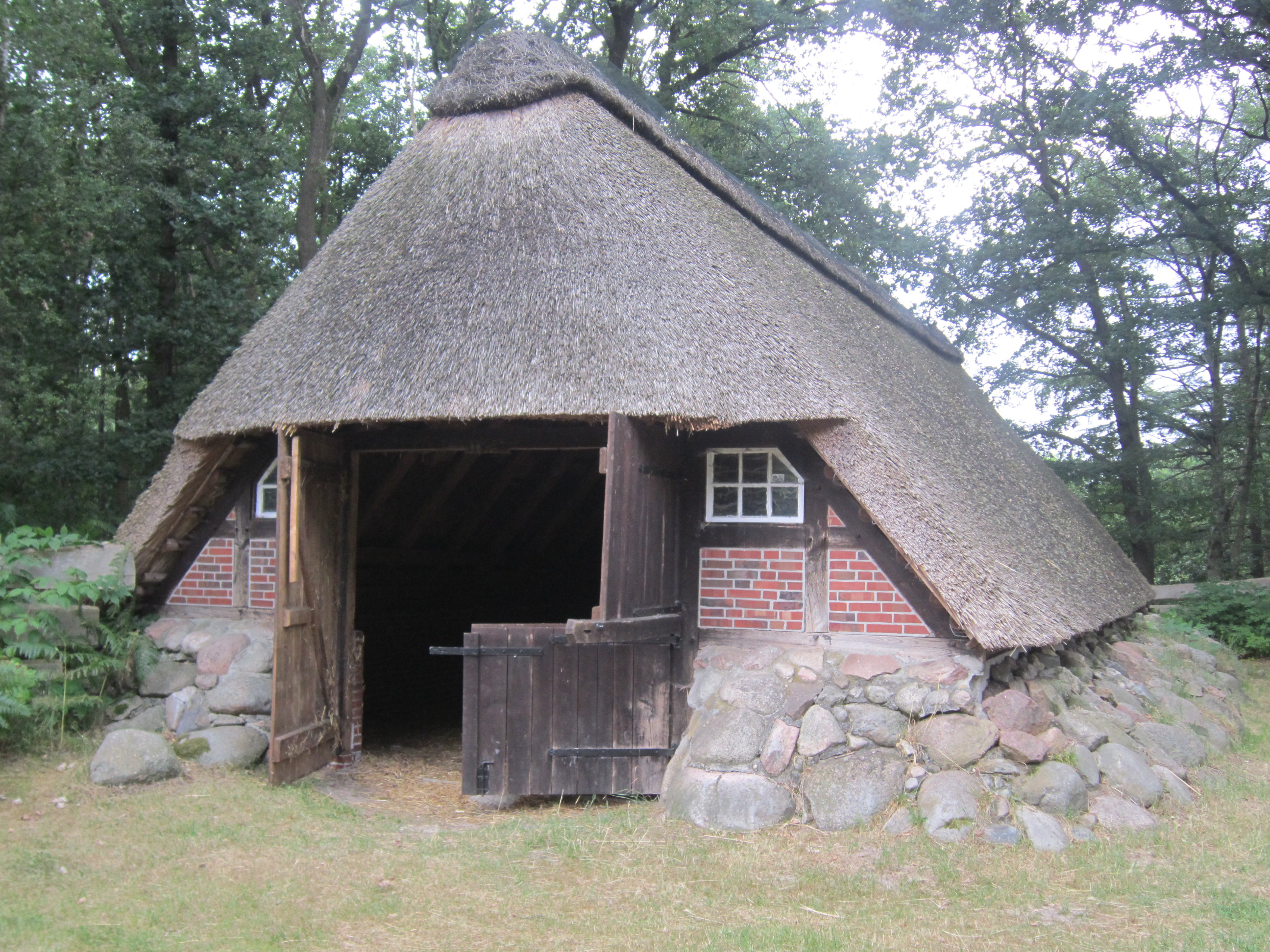 Sheep pen Lethe-Heide near Bissel (Großenkneten, Lower Saxony)